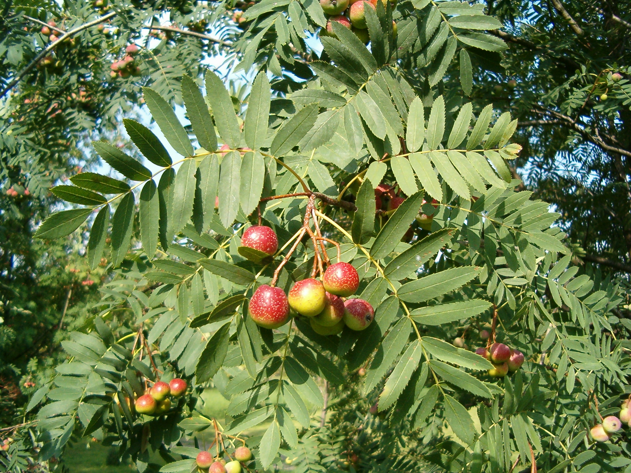 Sorbus domestica, oder Speierling, im Botanischen Garten Berlin